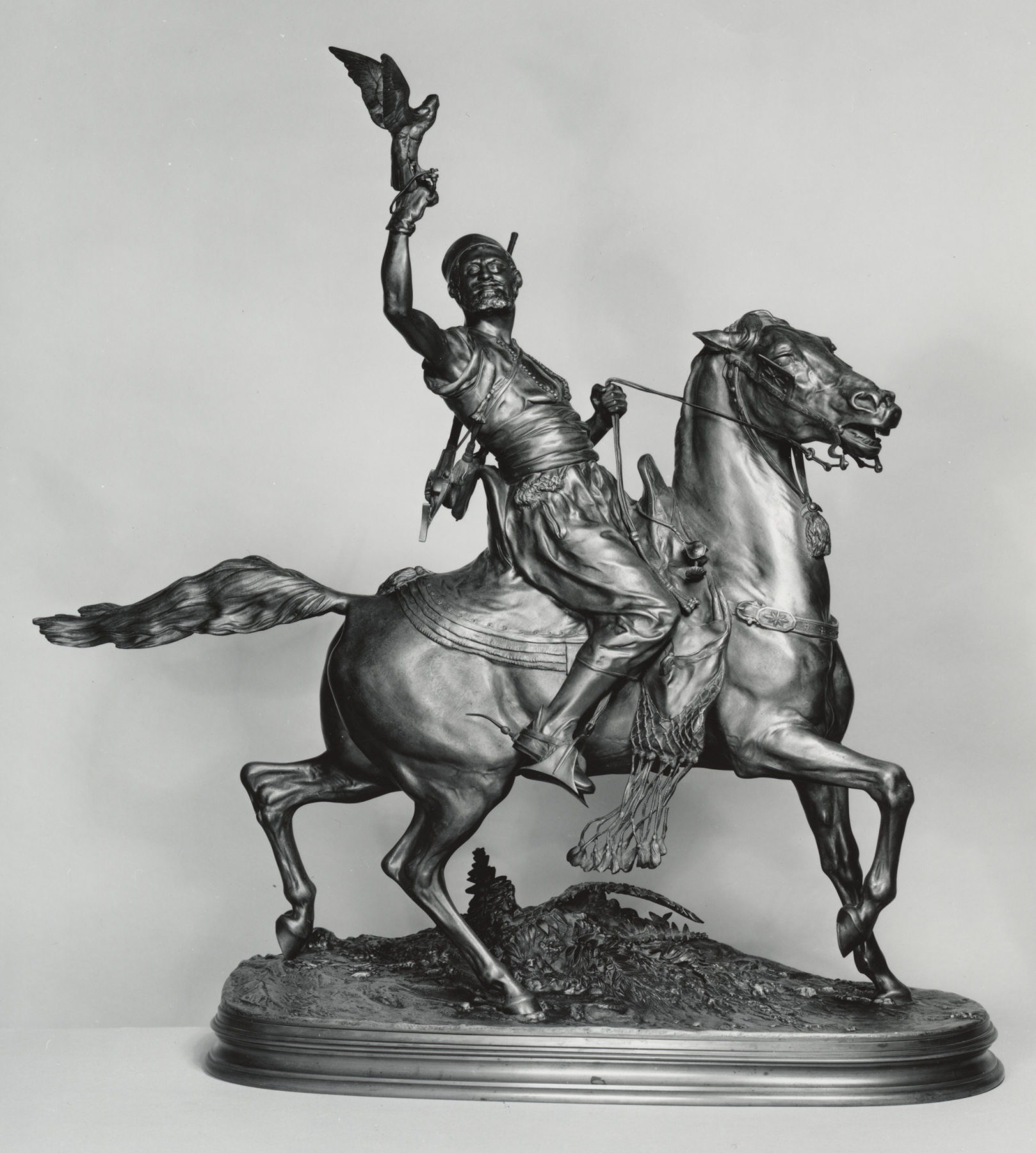 After Antoine-Louis Barye (French, 1795-1875), Mêne was one of the most widely known animal sculptors both in France and in Great Britain. Unlike many of his rivals, he cast most of his bronzes himself. His range of subjects included hunting and racing scenes, animal combats, and exotic and domestic animals.